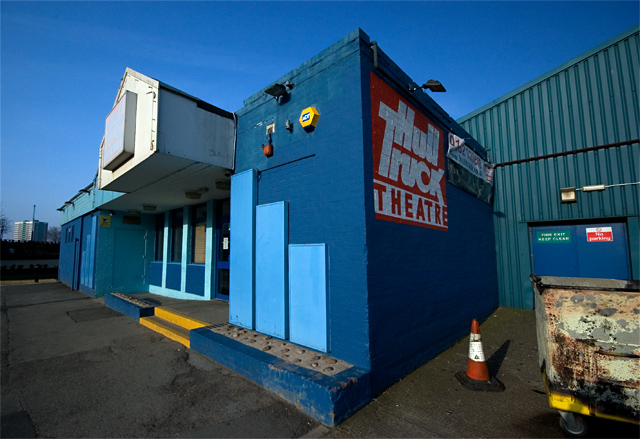 Spring Street Theatre, Hull. The former home of the Hull Truck theatre company which they occupied for 26 years before moving to 1213880